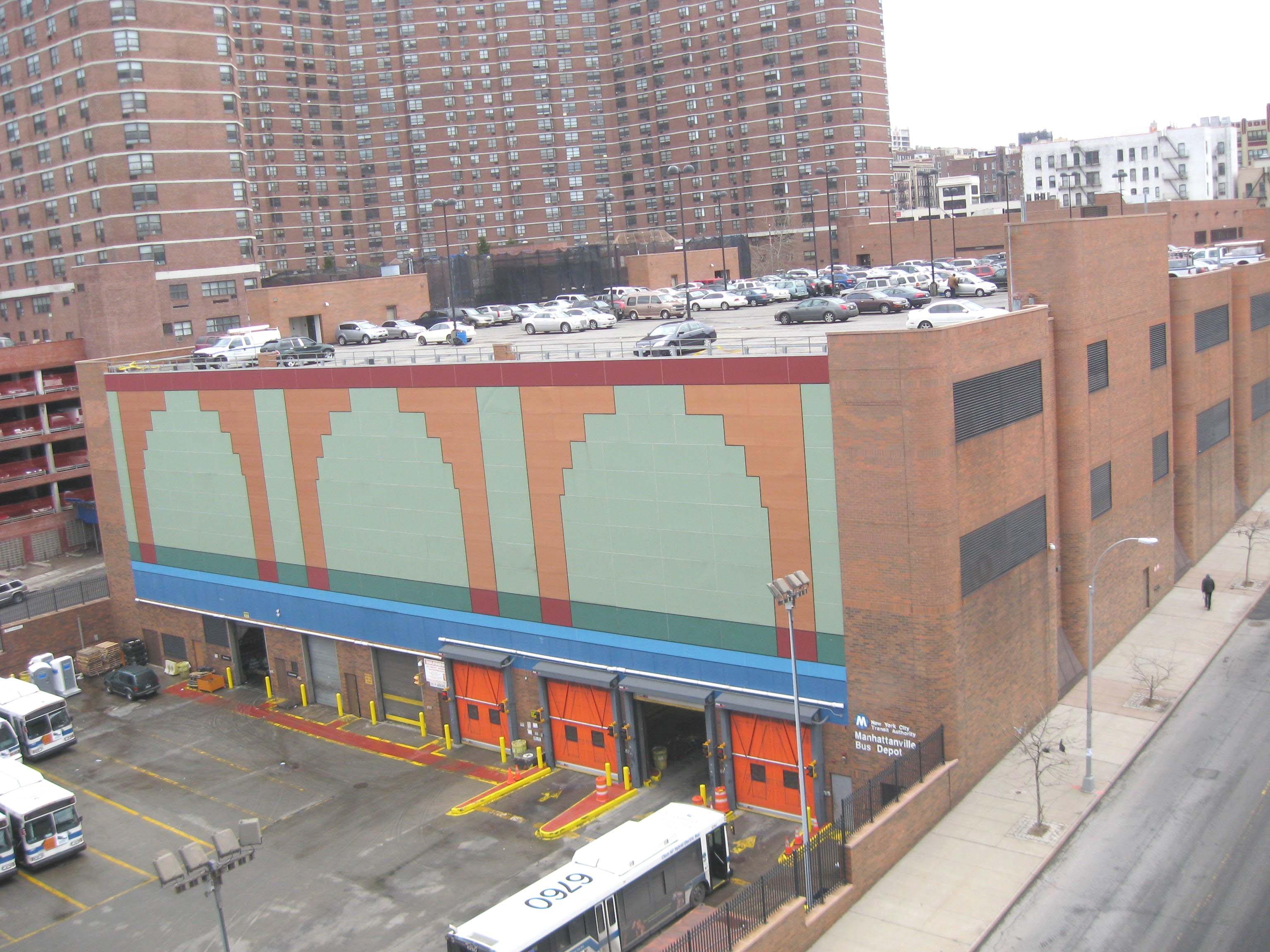 Looking east from the File:Harlem viaduct.jpg at Manhattanville Bus Depot on a cloudy midday.